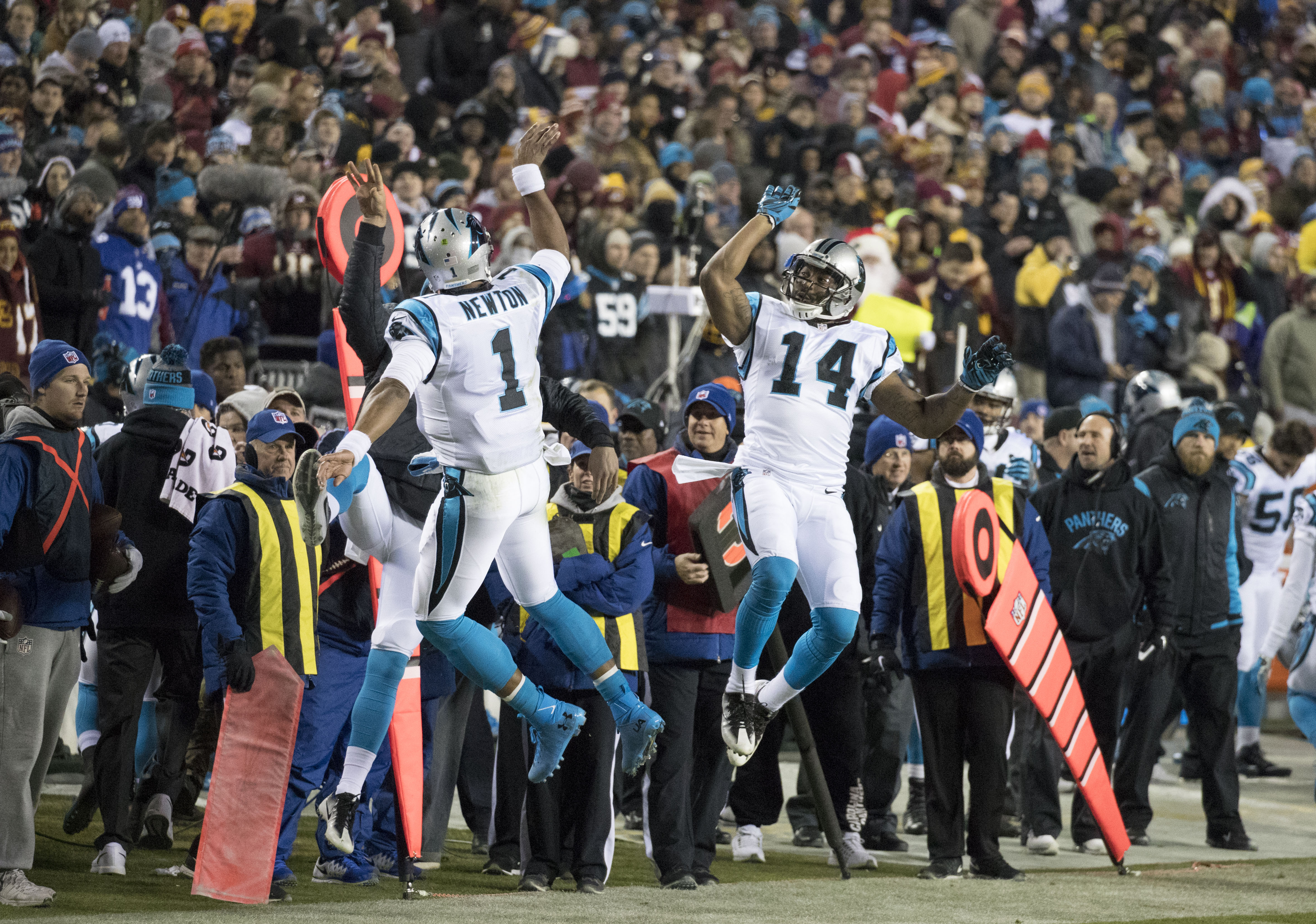 Panthers at Redskins 12/19/16